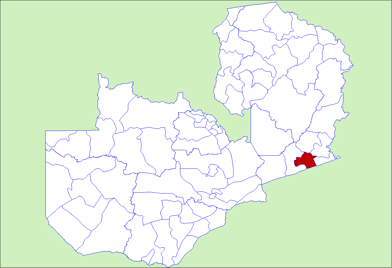 District locator in Zambia